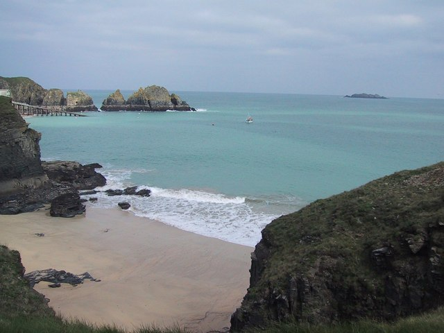 Mother Ivey's Bay